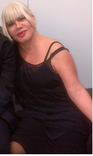 Sezen Aksu ("Minik Serçe") inclined on the shoulder of a person (cropped)